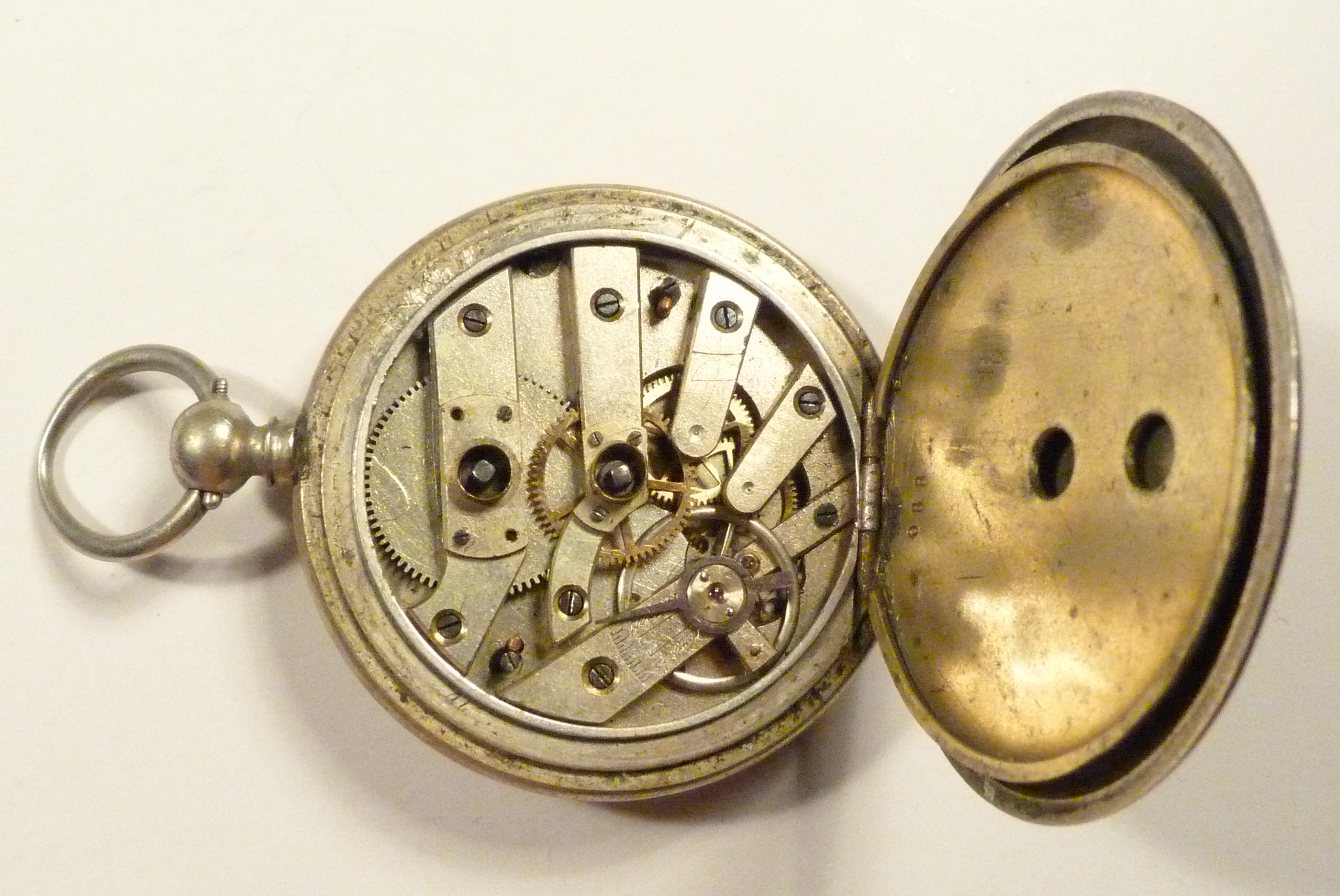 Pocket watch, winding and adjusting by key (about 1900)